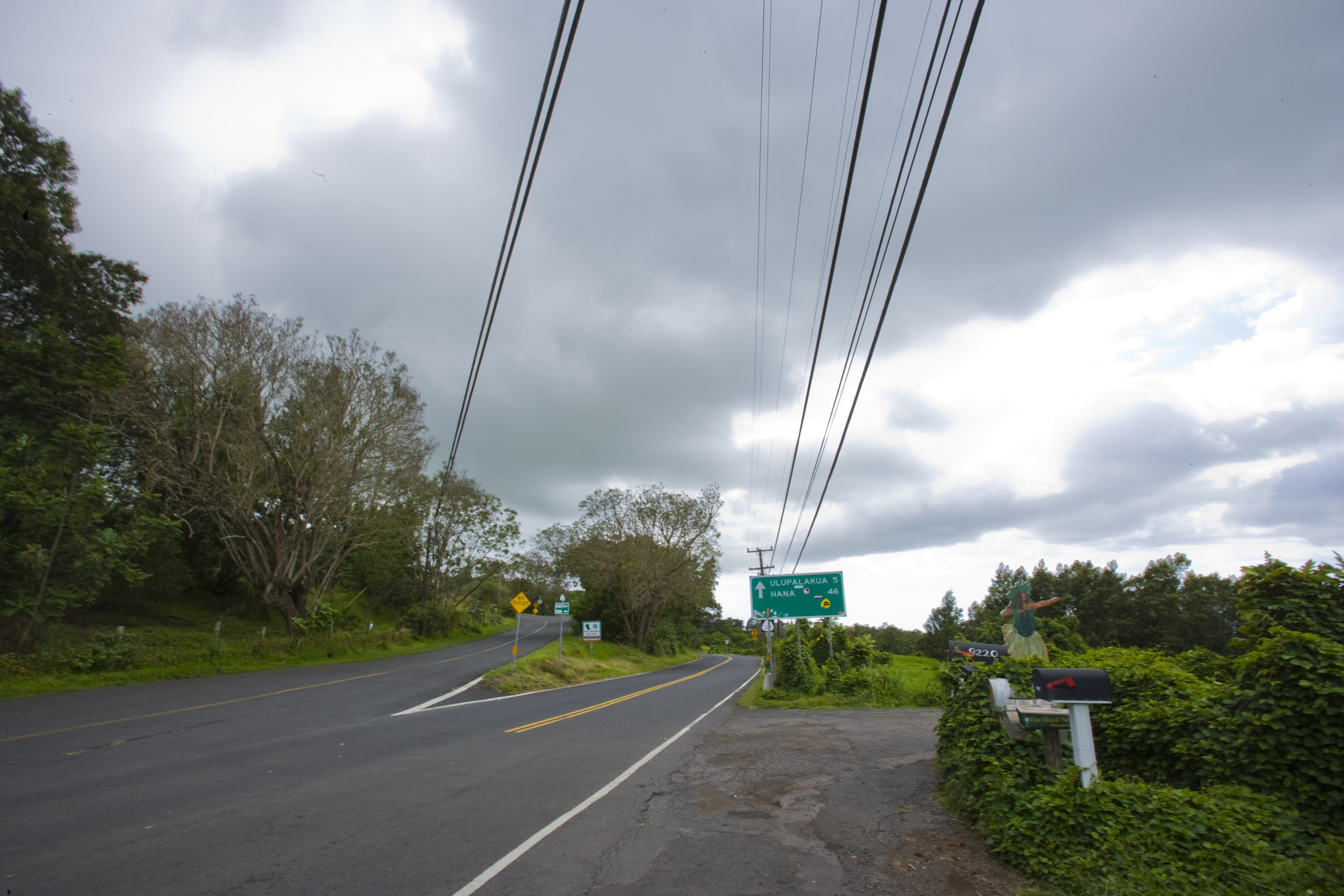 South side